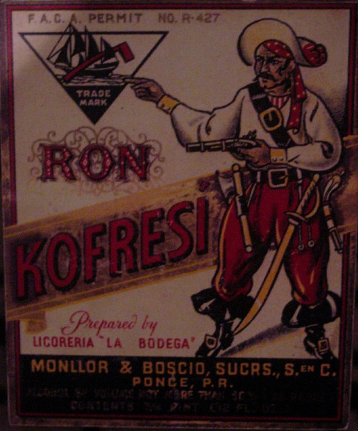 A photo of a bottle of the defunct brand of rum known as Ron Kofresí exhibited in a museum in Ponce, Puerto Rico. This bottle dated 1919 was stated by the personel of the museum to have survived intact due to the onset of the alchohol prohibition of 1920. According to the 1976 Copyright Act, any work that predates the year 1923 falls under the public domain and is therefore free to use.